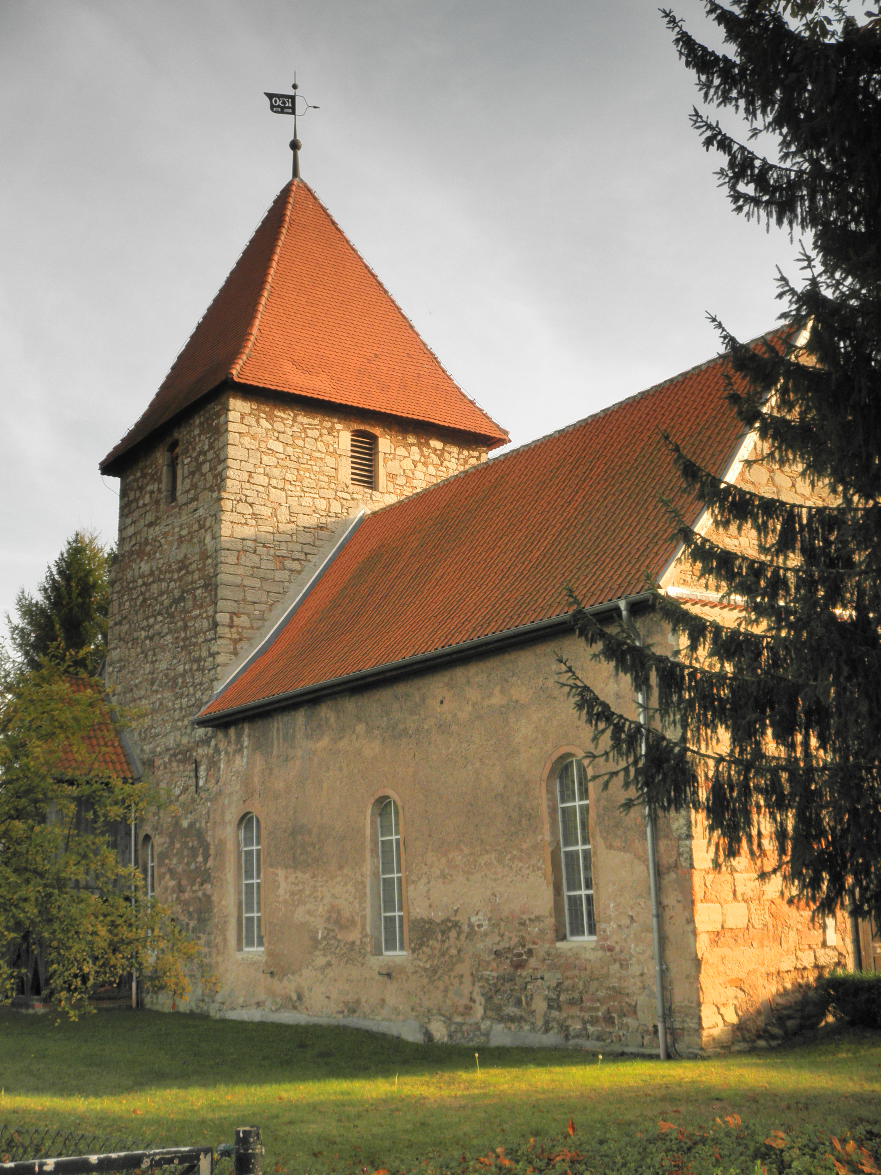 Church in Kleinfurra (Sondershausen) in Thuringia